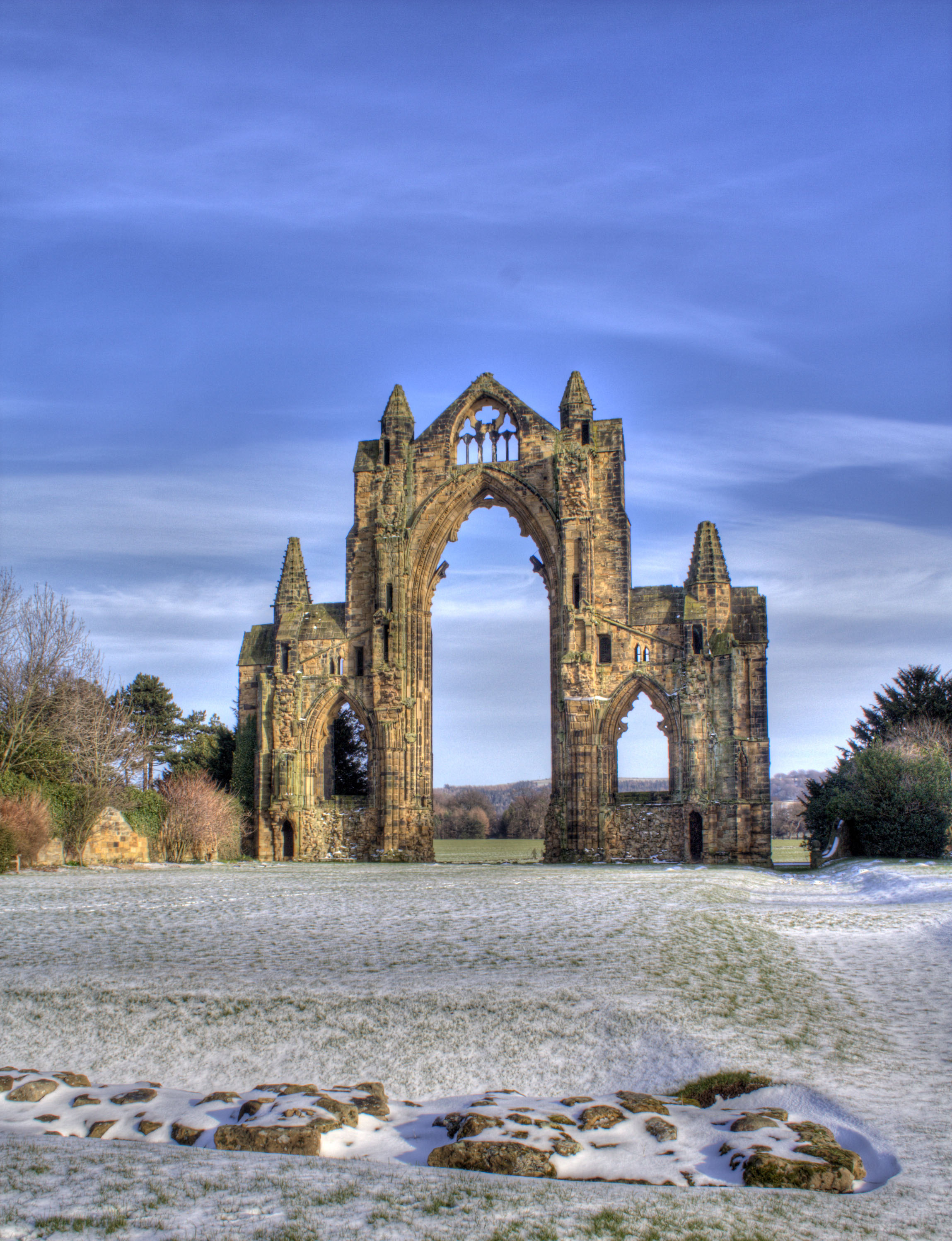 Gisborough Priory in the snow